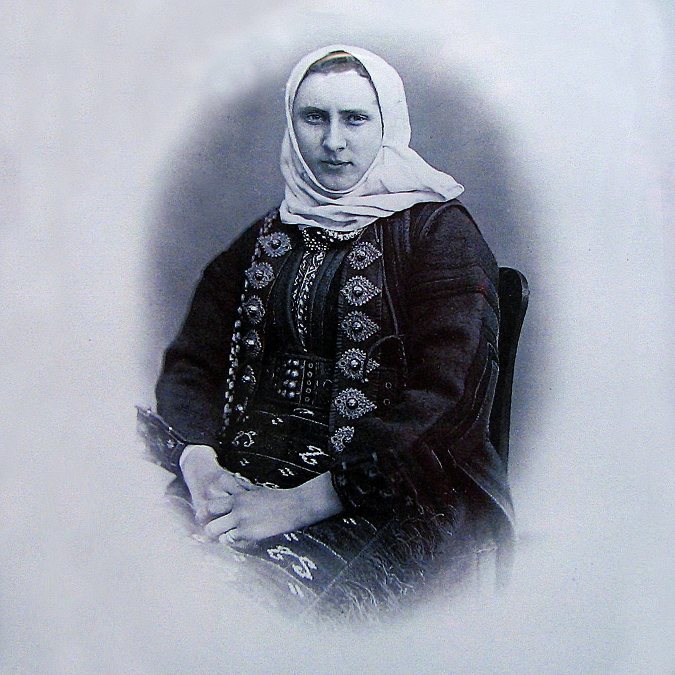 Serbian woman from Dalmatia XIXc